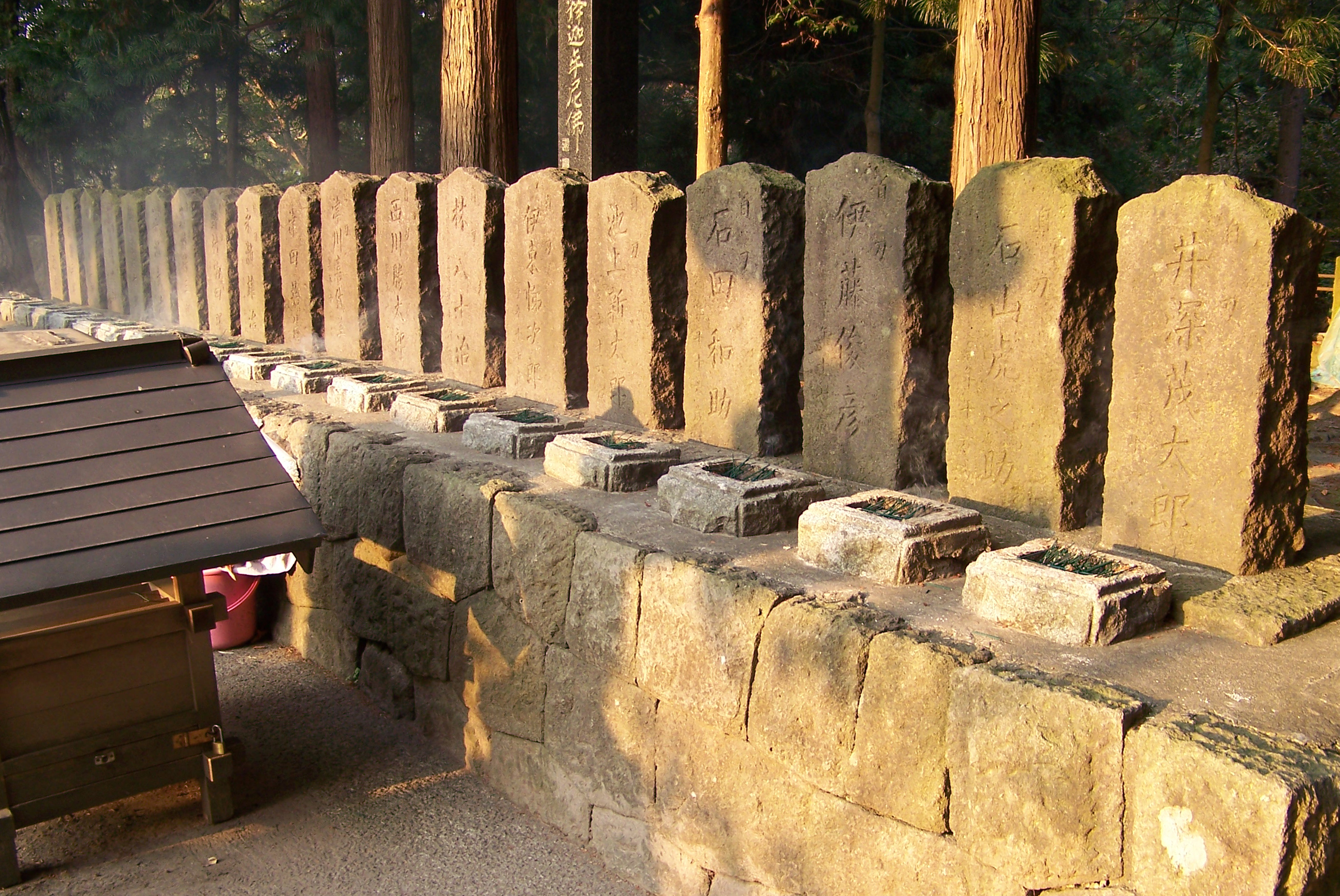 Shrine to the Byakkotai warriors at Iimori Hill, Aizu-Wakamatsu, Fukushima Prefecture, Japan. Photo by uploader. Taken 4 November 2006.